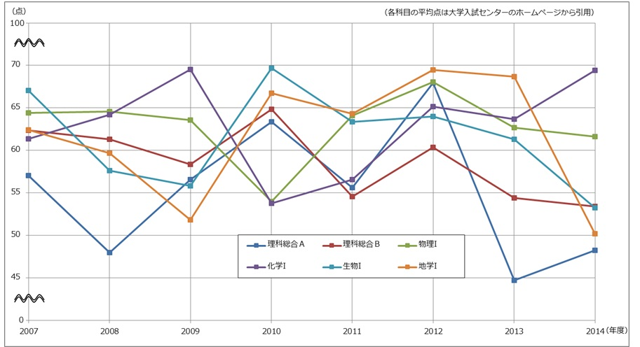 The graph of average score of Science (National Center Test for University Admissions)